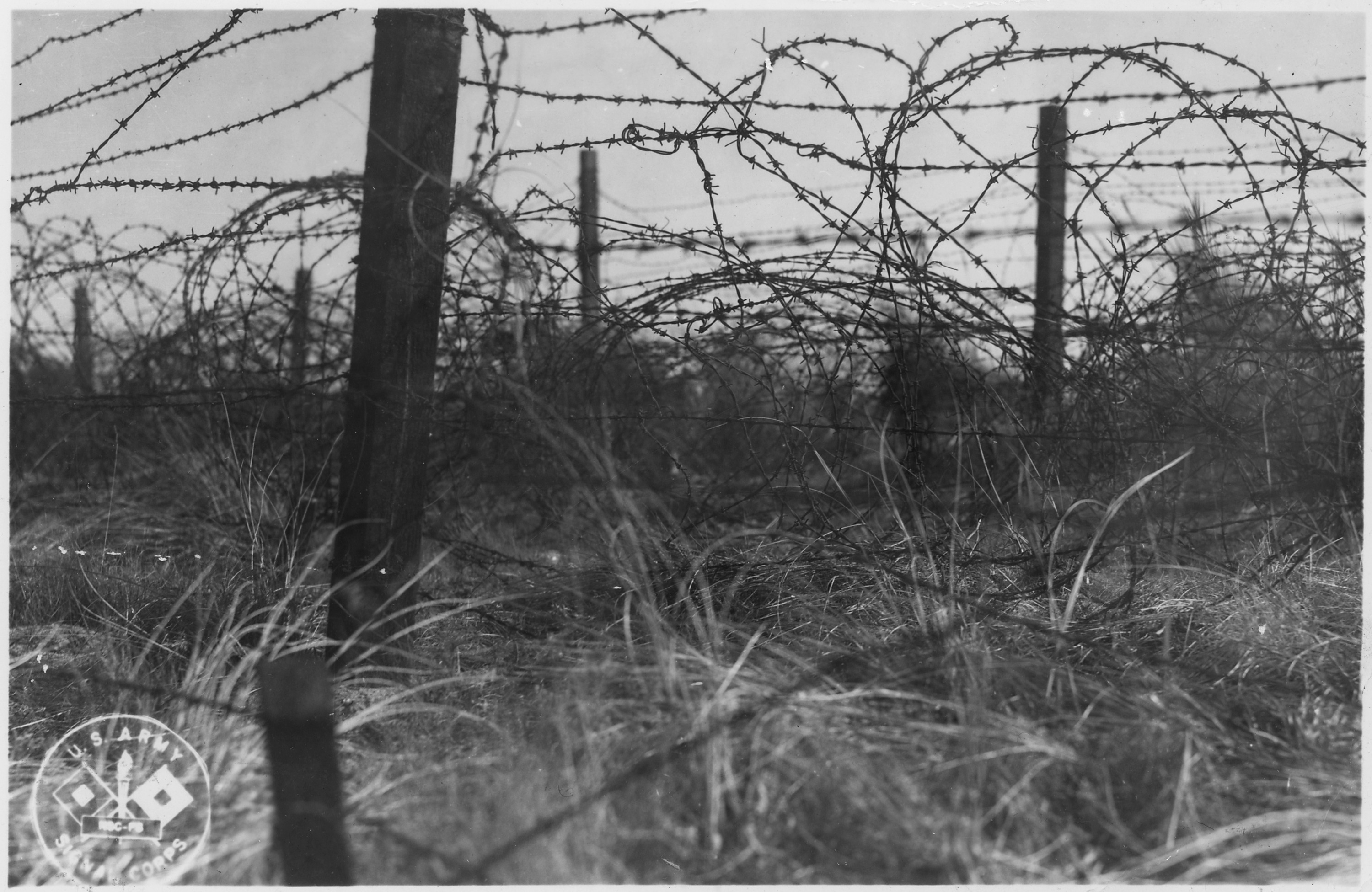 Scope and content: Beginning with the Civil War, the U.S. Army recognized a need to provide for coastal defenses in the Pacific NW along the Columbia River and in the Puget Sound. A number of forts, many no longer in service, were built for this purpose.